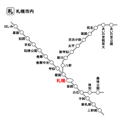 Area of stations in Sapporo-shinai.